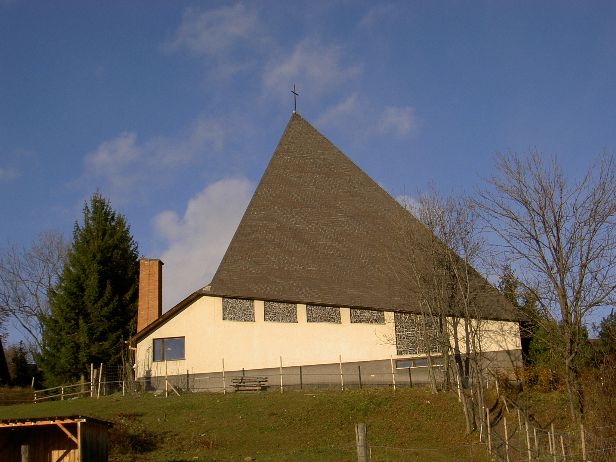 Church Maria Schutz in Stattegg, Styria, Austria